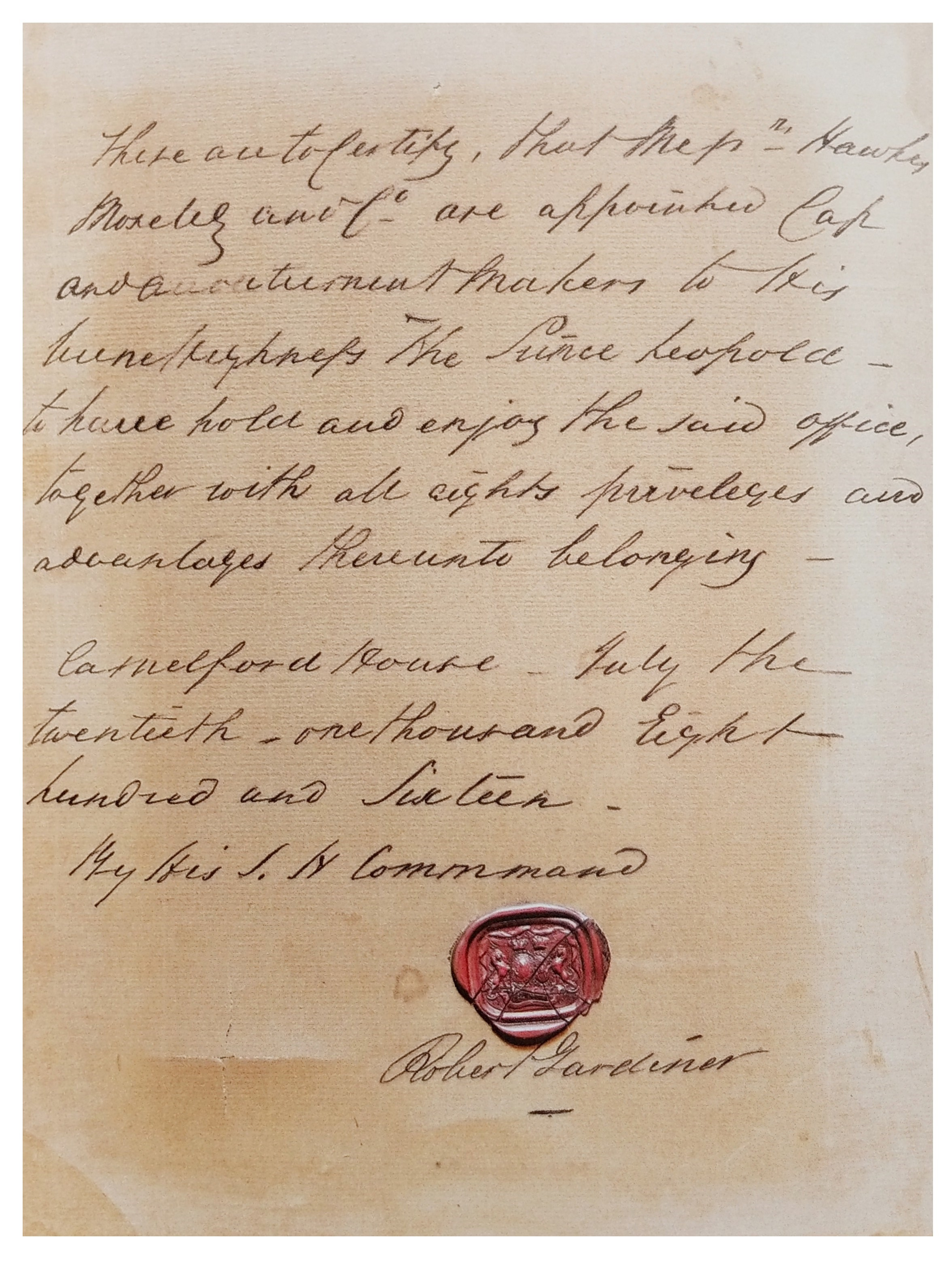 Original warrent granted by Prince Leopold to Hawkes, Moseley & Co. in 1816. Prince Leopold was Queen Victoria's uncle who was later elected the first King of Belgians.